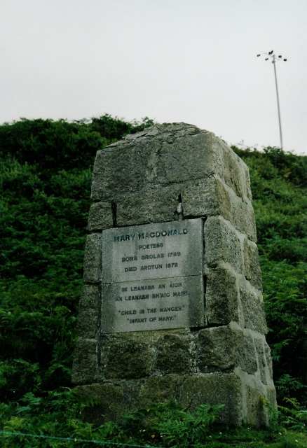 Photographer David Wyatt writes: Mary MacDonald wrote the Gaelic words to a hymn, which became an English favourite ("Child in a manger"). The tune was re-used for "Morning has broken" - probably the most famous Gaelic tune in the world now! Beside the main road, near Ardtun where she died.